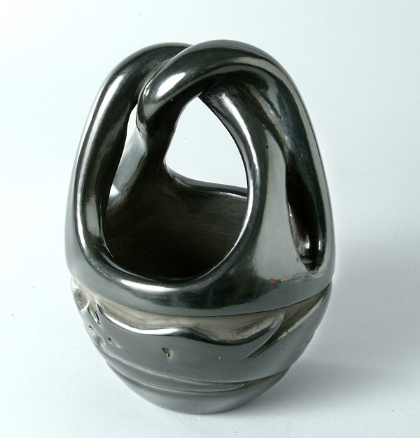 Double Handled Bowl Santa Clara Pueblo 1996 Made by Florence Browning The water serpent [awanyu] design on the sides of the bowl is carved into the clay when the piece has dried to "leather hard." This method is best known from Santa Clara Pueblo. Ceramic. H 16.5, D 11.5 cm [H 6 ½, D 4 ¾ inches] Bandelier National Monument, BAND 22753